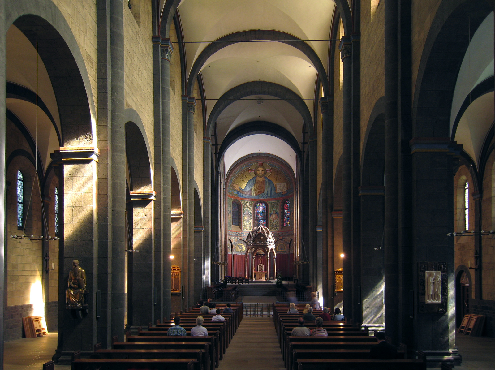 Maria Laach Abbey, interiof of church